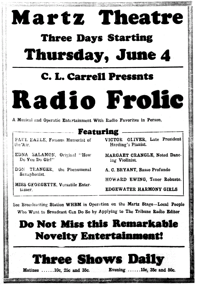 Promotional advertisement for "Radio Frolic" programs at the Martz Theatre in Tipton, Indiana, promoted by C. L. Carrell and broadcast locally over his portable radio station, WHBM.